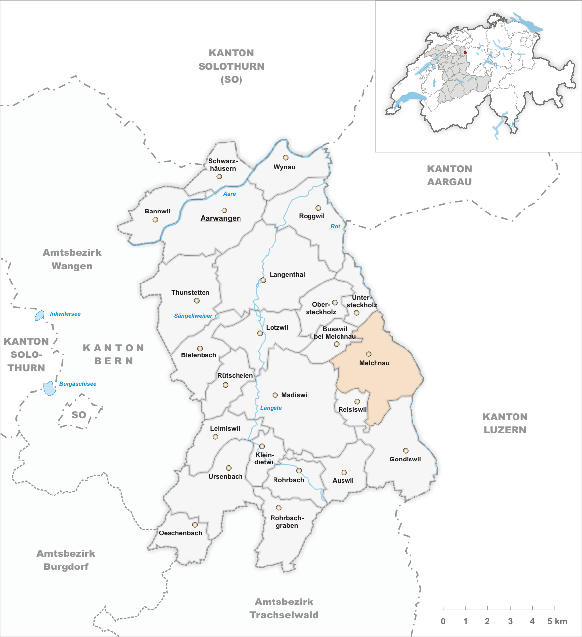 Municipality Melchnau